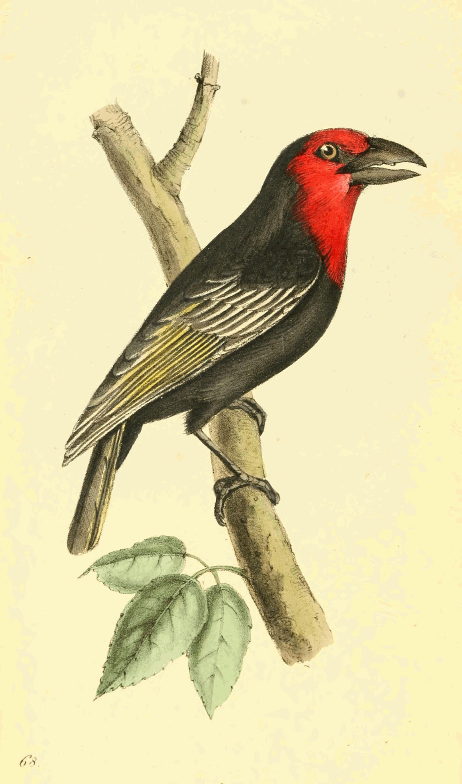 Plate 68. Pogonias rubrifrons. Red-fronted Toothbill. = Pogonias brucii[1] = Phytotoma tridactyla[2] = Loxia tridactyla = Phytotoma abyssinica = Hyreus abyssinica[3] Hyreus=Lybius[4] Lybius abyssinicus = Lybius guifsobalito = Lybius tridactylus[5]